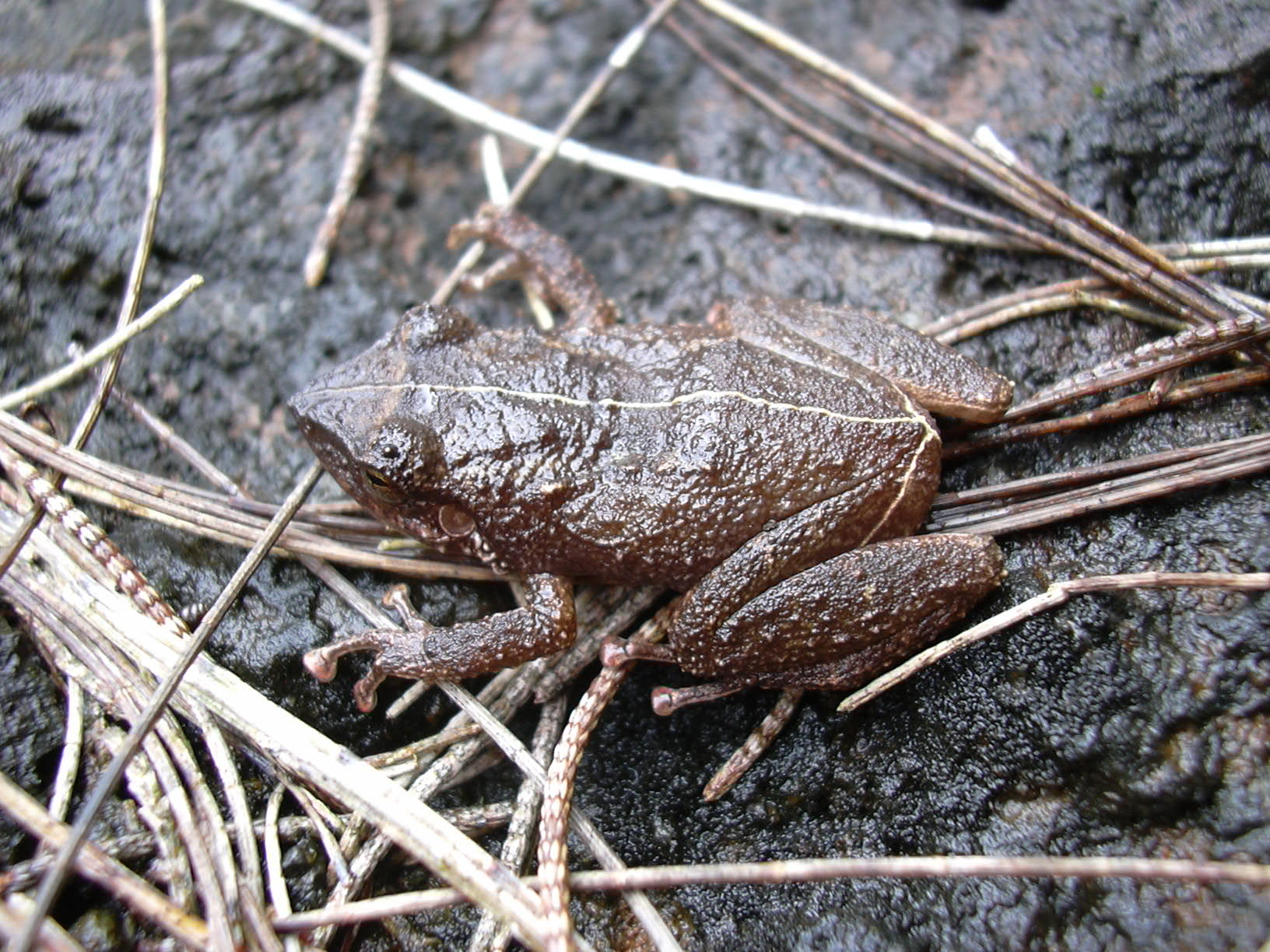 Casuarina equisetifolia (with Eleutherodactylus coqui). Location: Hawaii, Hilo